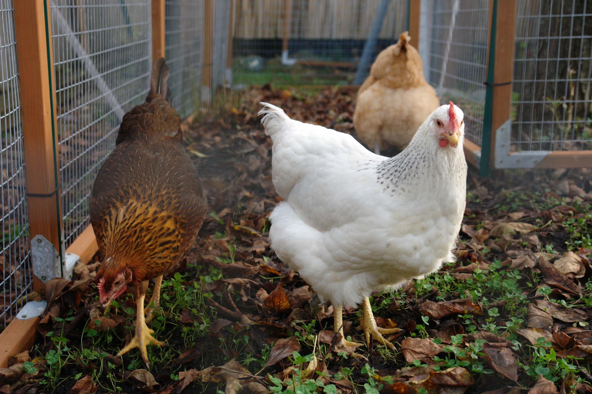 A trio of pullets: (from left) a Welsummer, a Delaware, and a Buff Orpington.